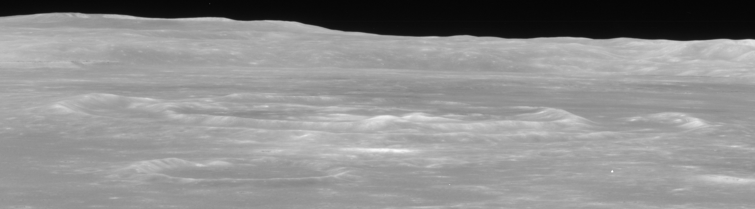 Oblique view of Haldane crater, facing west, on the moon. Taken by Apollo 17 panoramic camera.